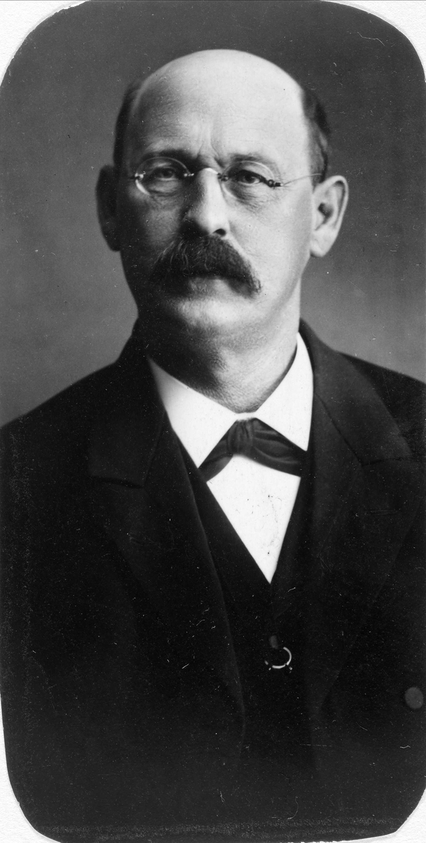 Norwegian composer Catharinus Elling. Foto: Eivind Enger